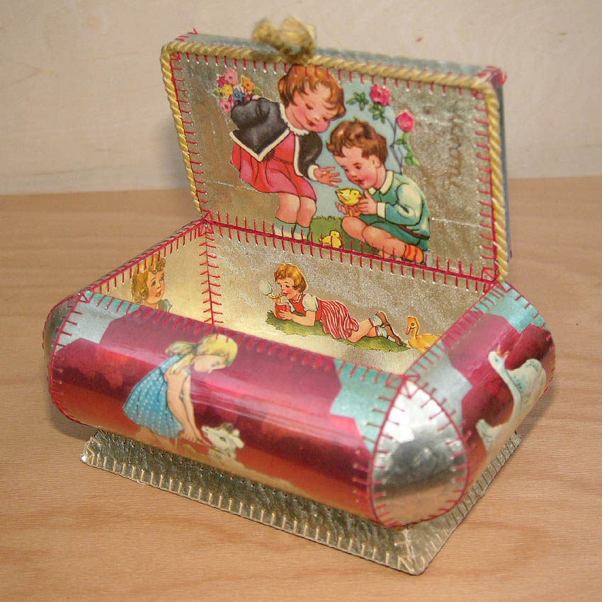 Self-made casket with Glanzbildern